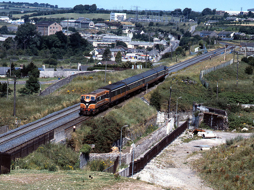 Train at Kilbarry / CIE General Motors built 141 class locomotive No. 168 heads the 11.30 Mallow - Cork passenger service past the site of Kilbarry cabin and sidings. Nothing remains of the once extensive ESB and fertiliser sidings once found here - see: W6774 : Former Kilbarry railway yard, Cork & W6774 : Train at Kilbarry cabin